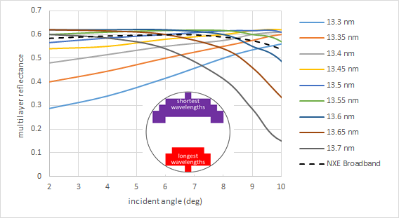 When only a narrow range of EUV wavelengths is considered (e.g., above center), it may give a false appearance of reflectance uniformity across angles.The measured EUV multilayer reflectance is shown above as a function of incident angle for 13.3-13.7 nm wavelength range.[1] ASML's NXE EUV tool's broadband spectrum reflectance is also shown as the dashed curve.[2] The incident angle is defined with respect to the normal to the multilayer surface. The EUV source output is mostly concentrated between 13.3 nm and 13.7 nm.[3] The reflectance integrated over the range of angles is also comparable for the wavelengths of this range, but the dropoff for larger angles is faster for the longer wavelengths.[1] This trend is expected from the condition of Bragg's law.[4][5] A change in the cosine of the incident angle on the order of 1/(# of layer periods) ~2-3% is sufficient to reduce the wavelength's reflectance significantly.[6][7] Inset: the impact of the angular dependence of reflectance on the wavelength distribution in the pupil, also known as apodization. The longest wavelengths are brighter at smaller angles, while the shortest wavelengths are brighter at larger angles. [8] Multilayer reflectance in wavelength-angle space. The multilayer reflectance is maximized at the greenish region, falling off gradually in both angle and wavelength (in nm).